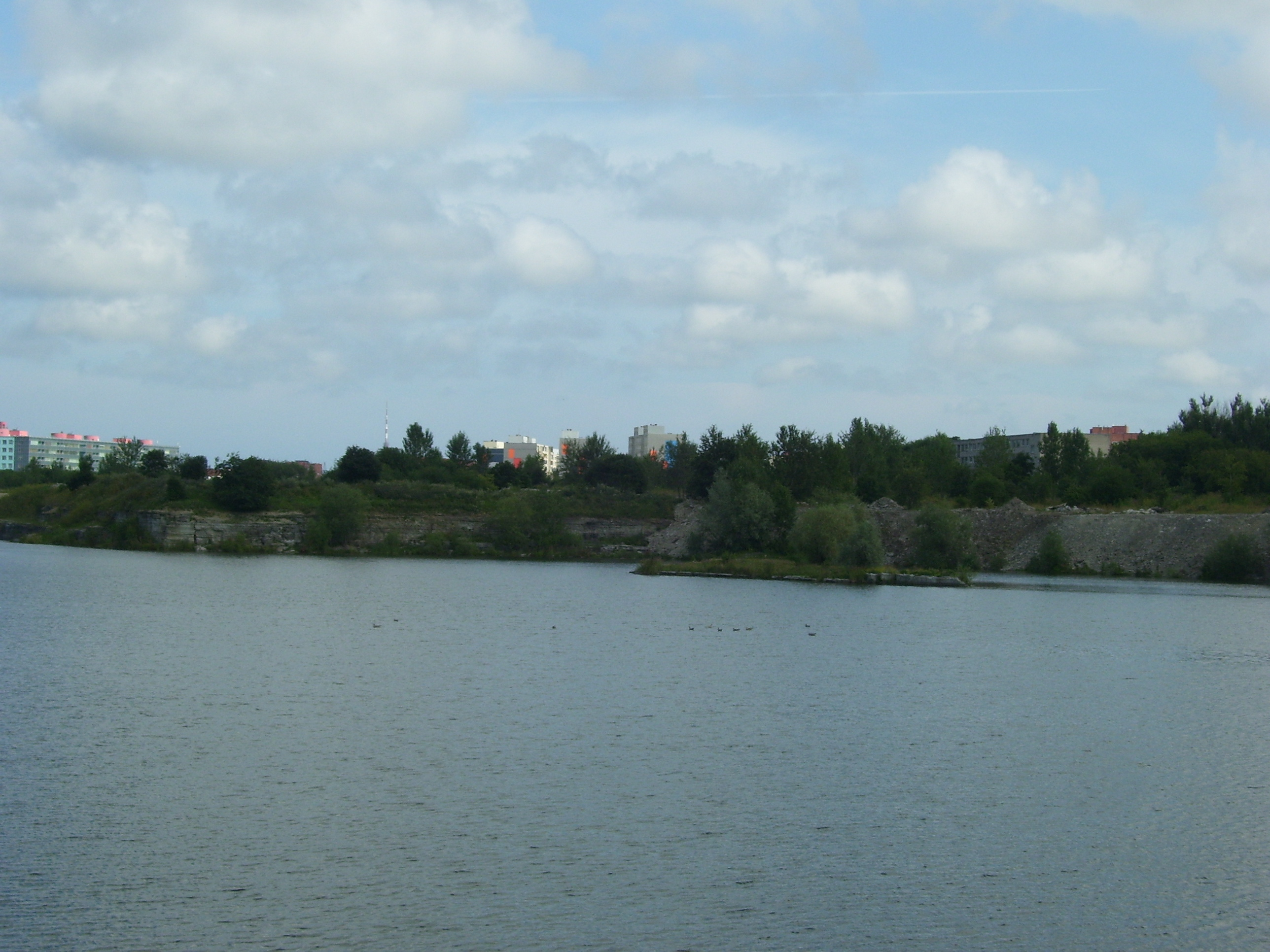 The artificial lake of Lasnamäe, Tallinn, Estonia. The eastern islet.